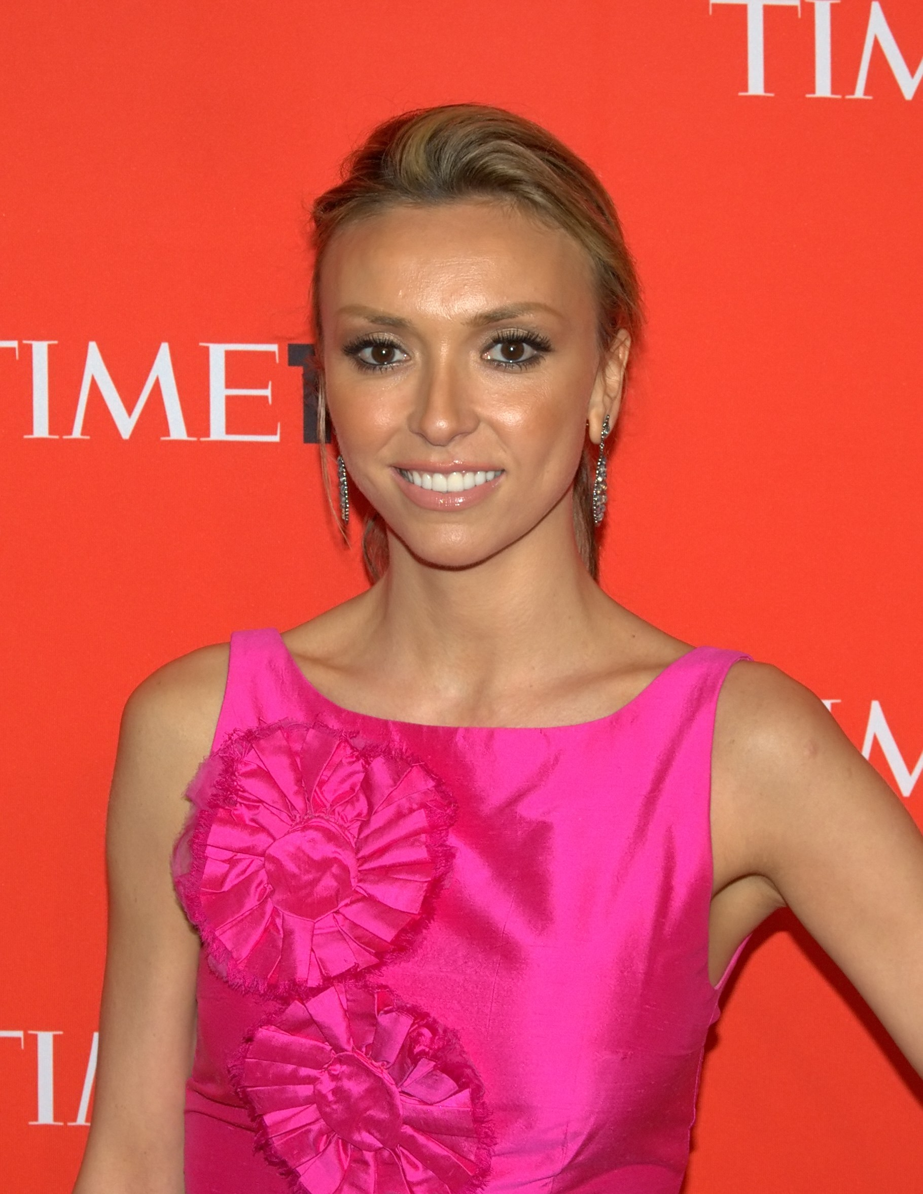 2010 Time 100 Gala in New York City